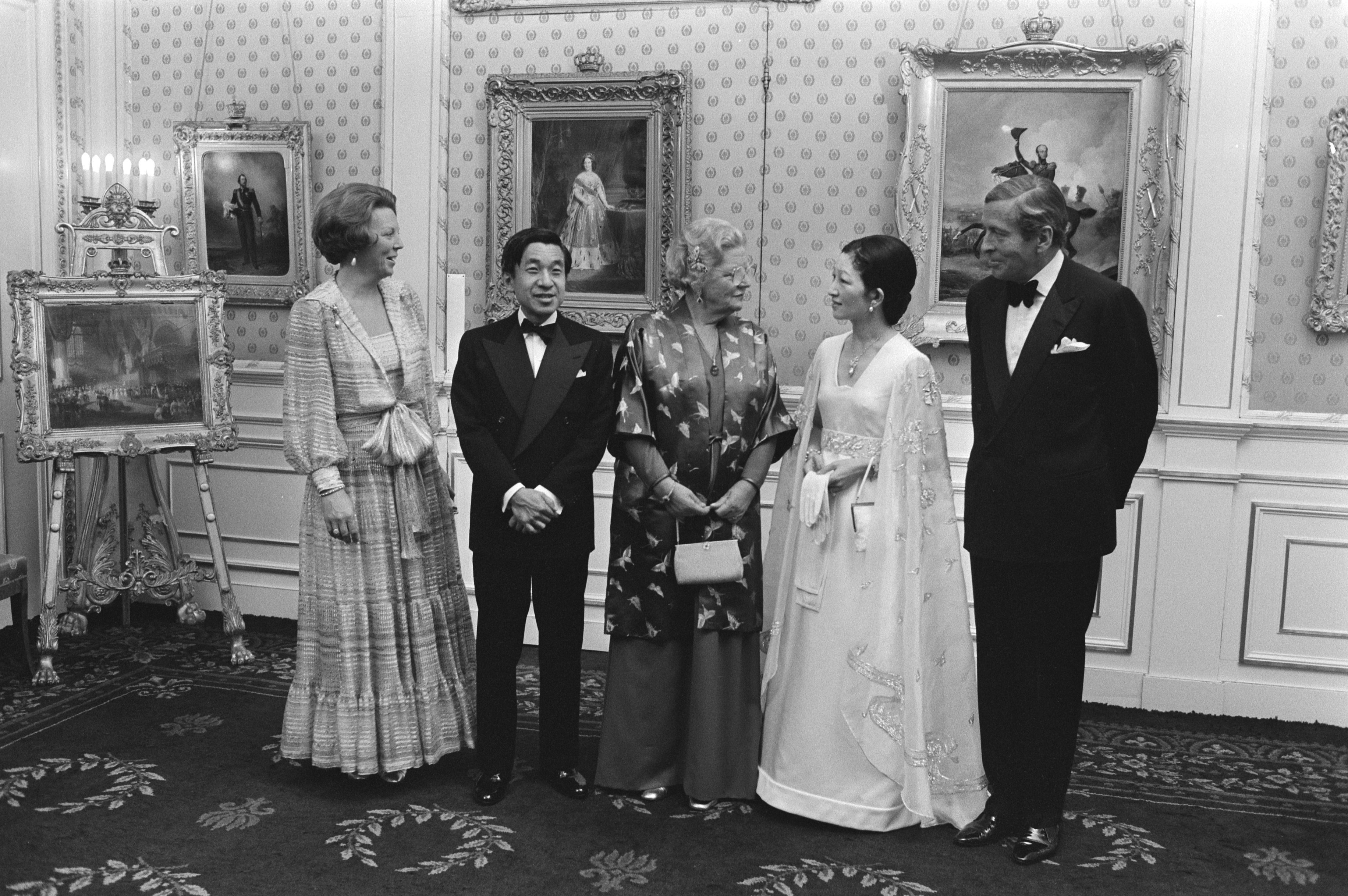 "State visit of Japanese Crown Prince Akihito and Princess Michiko; picture taken at Soestdijk Palace." The picture shows (l to r): Princess Beatrix of the Netherlands (Queen 1980-2013); then Crown Prince and now Emperor of Japan Akihito; the now late Queen Juliana of the Netherlands; then Crown Princess now Empress of Japan Michiko; and the now late prince consort to Beatrix Prince Claus of the Netherlands.